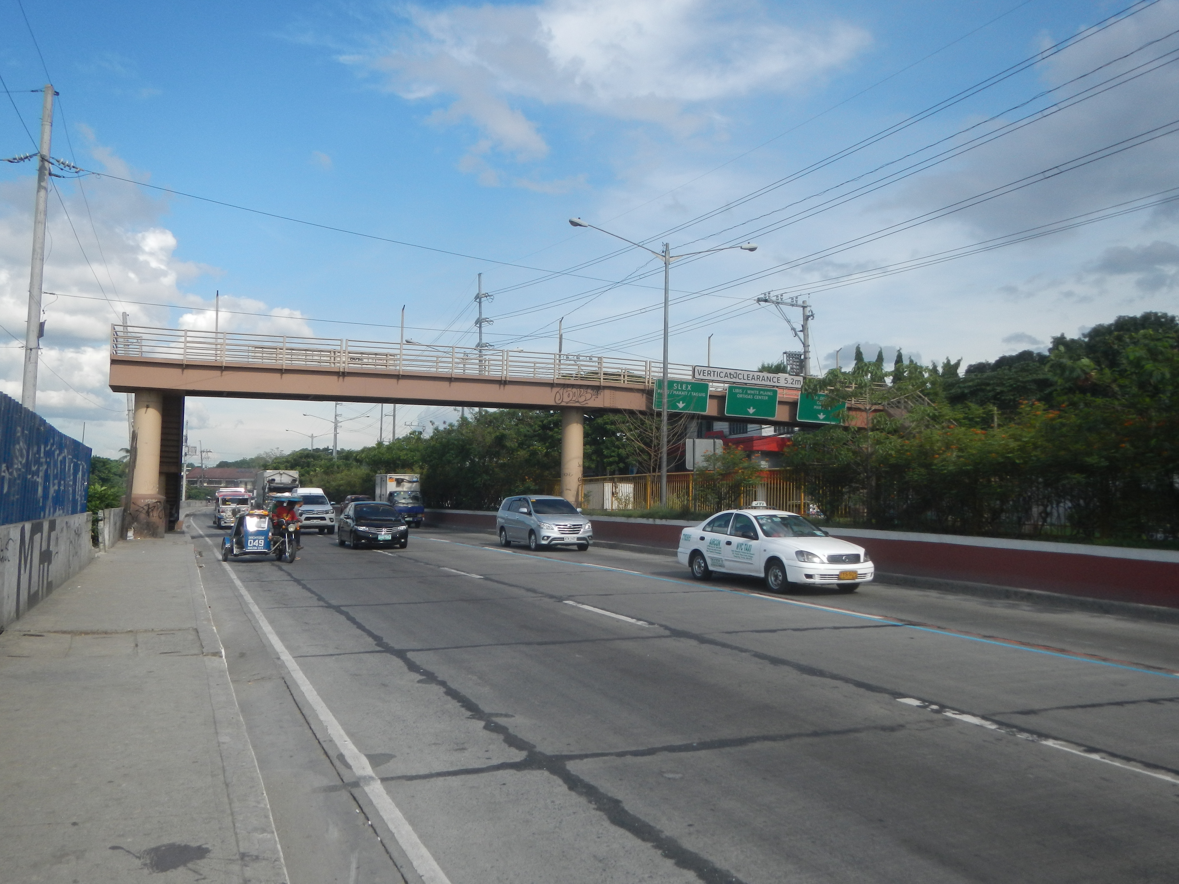 Bedrock Building Kayumanggi Center Loyola Memorial Chapels & Crematorium, Inc. - Commonwealth University Avenue Station-Underground Guideway construction MRT-7 Manila Metro Rail Transit System Line 7 University Avenue station Tandang Sora Avenue (Old Balara, Quezon City) C-5 (Luzon Avenue) - Commonwealth Avenue Flyover (Culiat and Old Balara, Quezon City) Luzon Avenue 14°40'34"N 121°4'9"E Luzon Avenue, Circumferential Road 5 New Luzon TODA Terminal Legislative districts of Quezon City District 5, Matandang Balara 14°39'37"N 121°5'1"E Quezon City, Metro Manila corner Commonwealth Avenue, Quezon City formerly known as Don Mariano Marcos Avenue as part of Radial Road 7 (R-7) to Batasan Road (Note: Judge Florentino Floro, the owner, to repeat, Donor Florentino Floro of all these photos hereby donate gratuitously, freely and unconditionally all these photos to and for Wikimedia Commons, exclusively, for public use of the public domain, and again without any condition whatsoever).